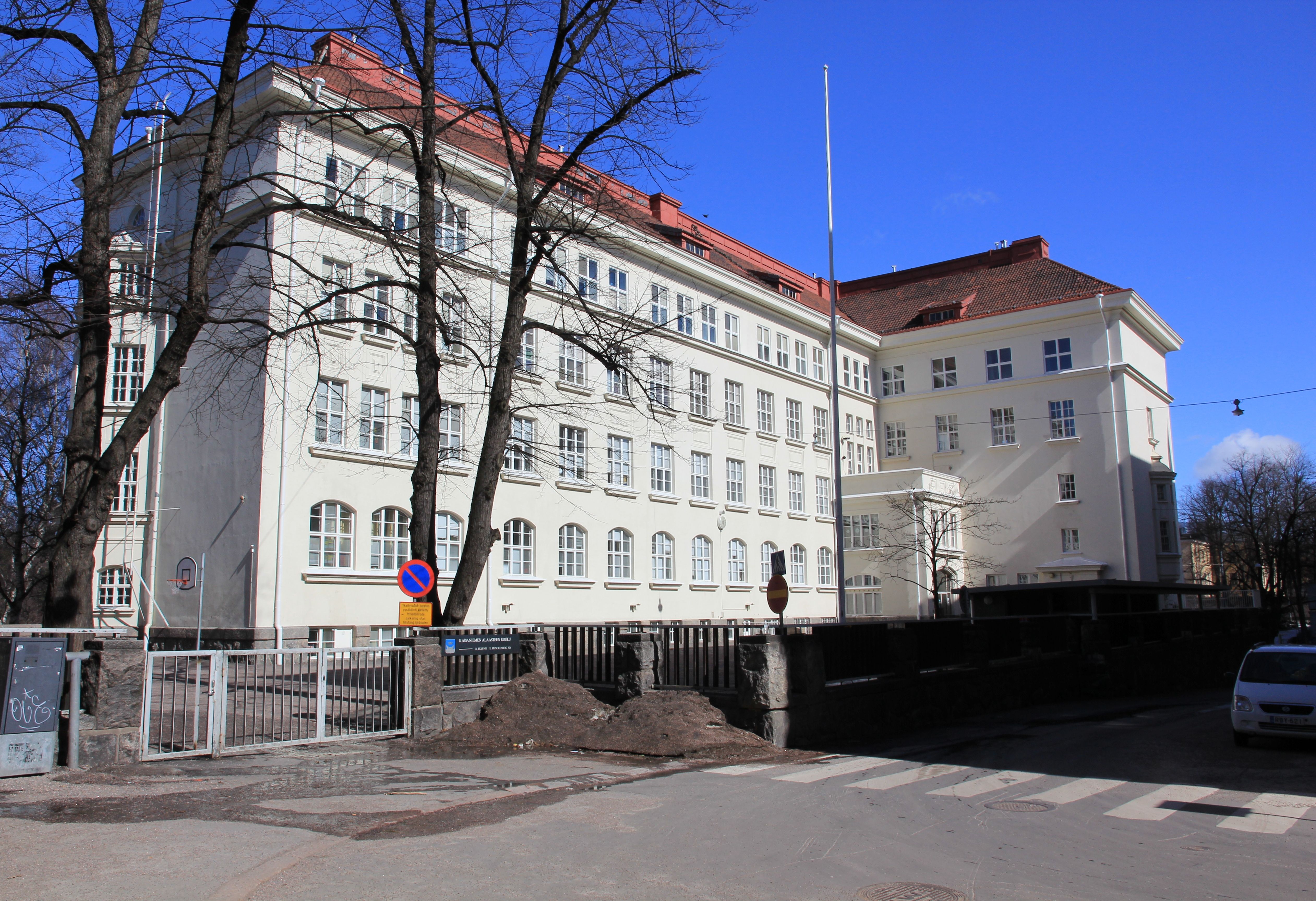 Kaisaniemi primary school, Puutarhakatu 1.